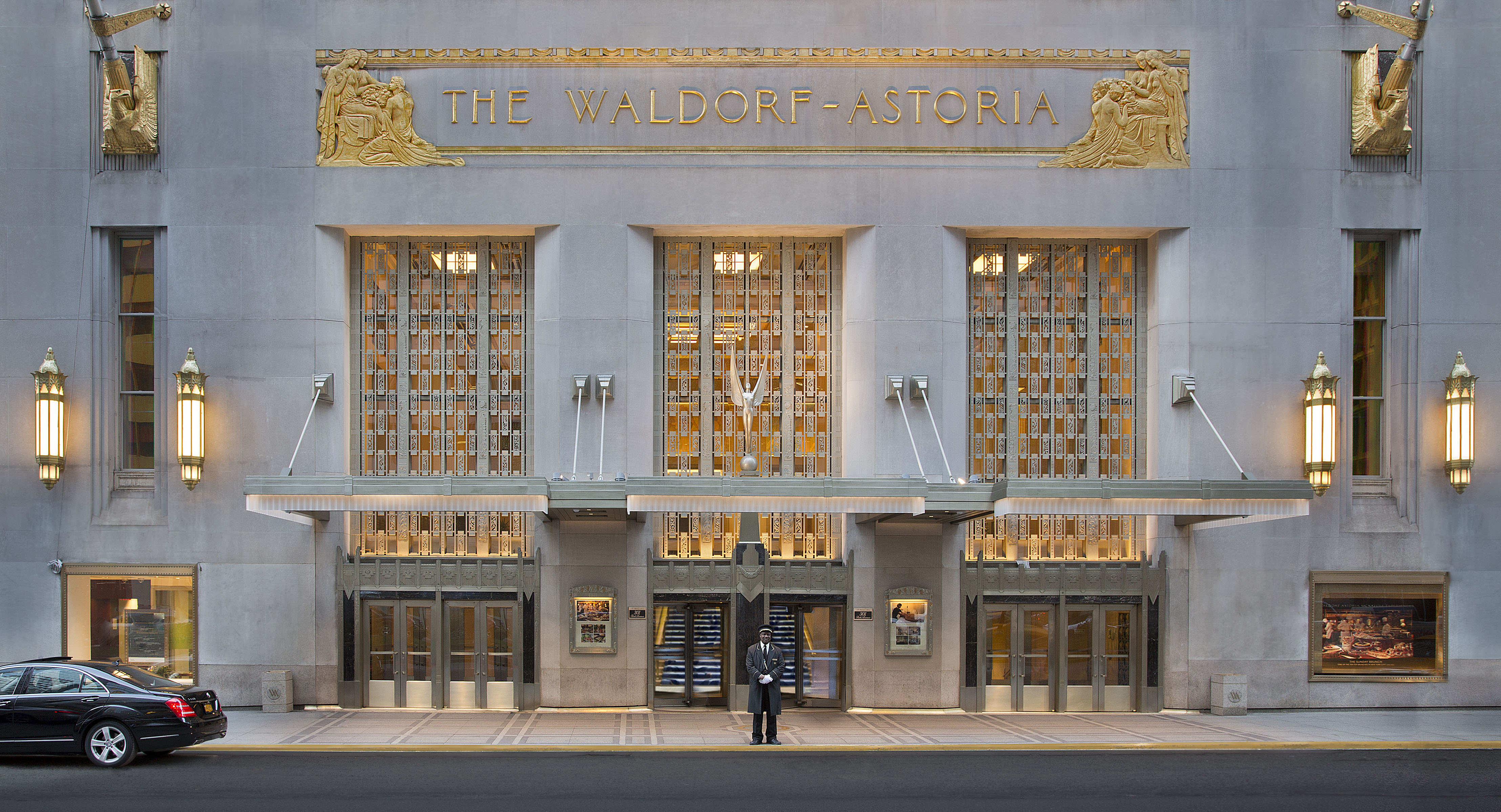 Park Avenue entrance to the Waldorf Astoria New York